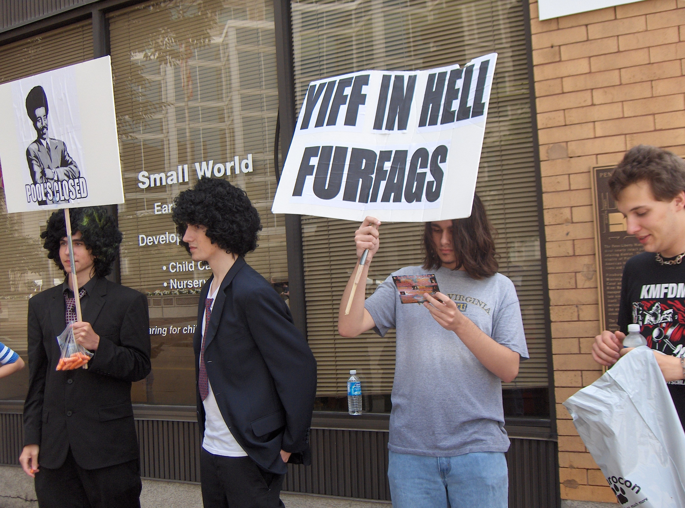 Anti-furry protesters (/b/tards) near the David L. Lawrence Convention Center in which Anthrocon 2007 was set. They wear afro wigs in reference to raids on Habbo Hotel.